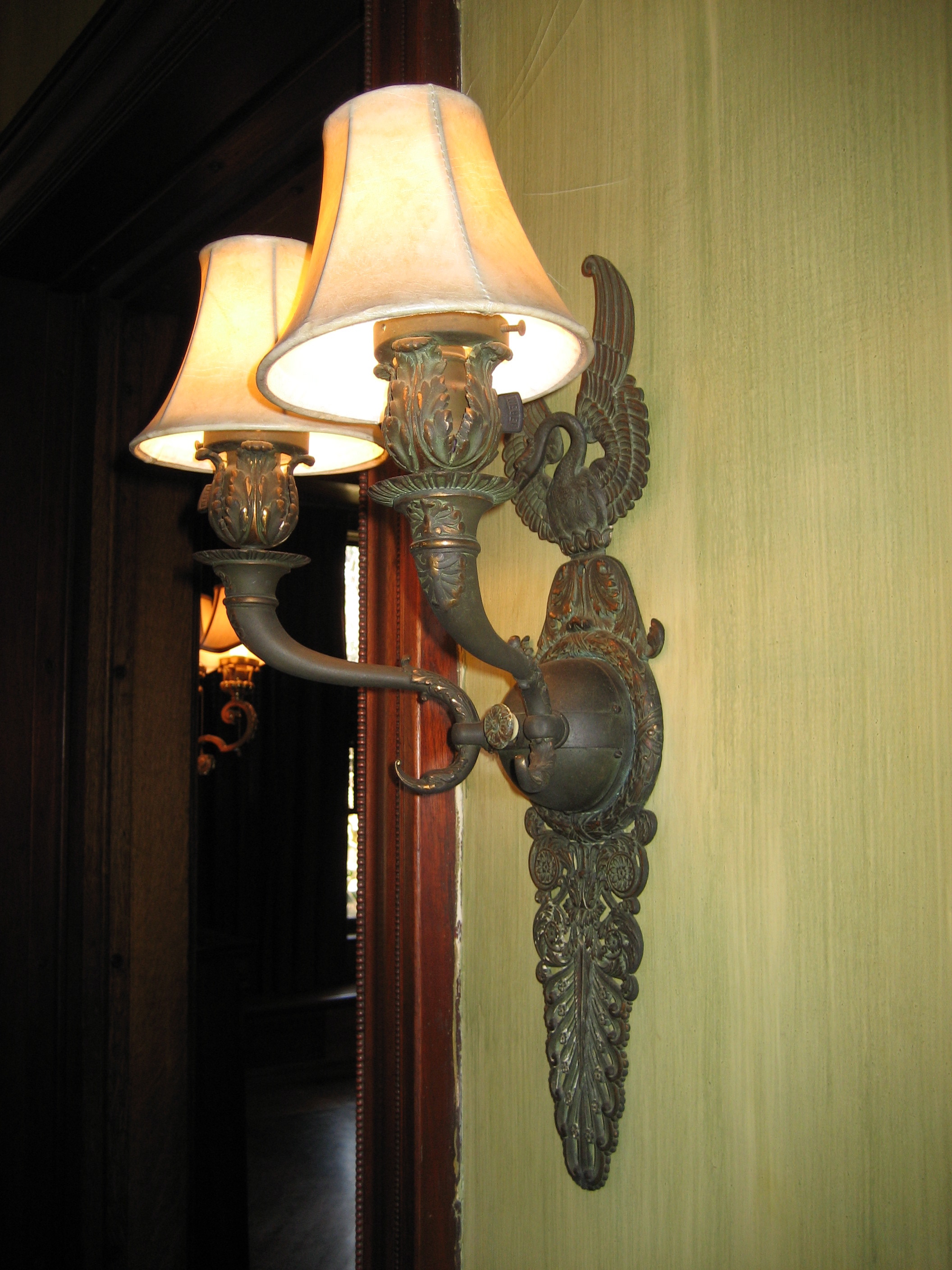 Electric wall lamp in Milton Latter Library, New Orleans